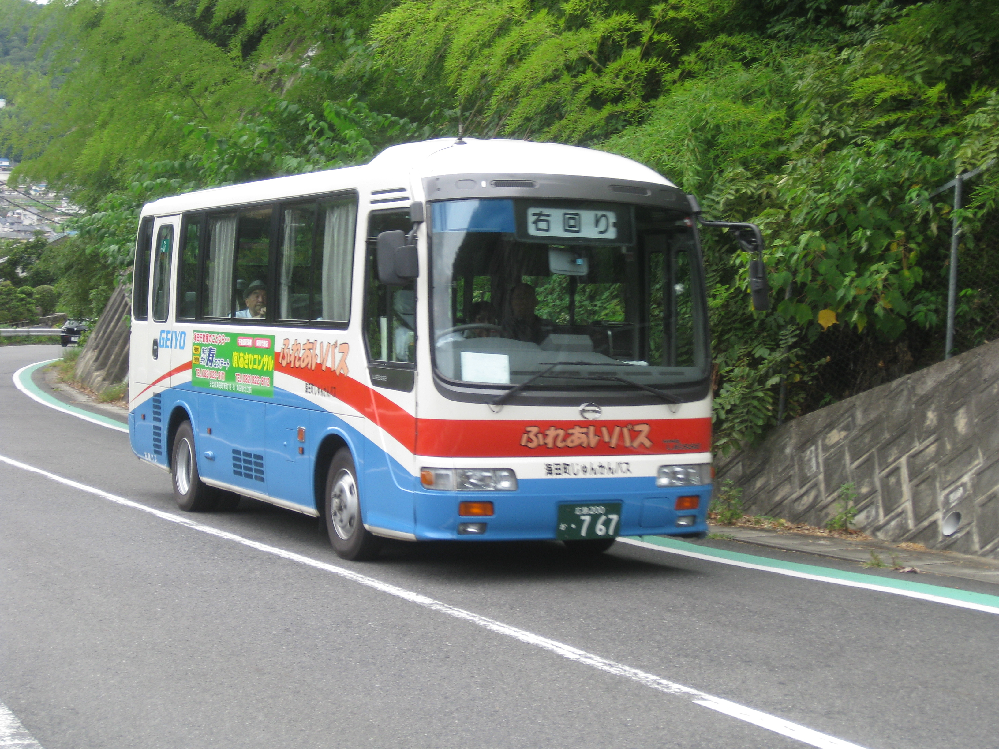 A bus car of comunity bus in Kaita town.